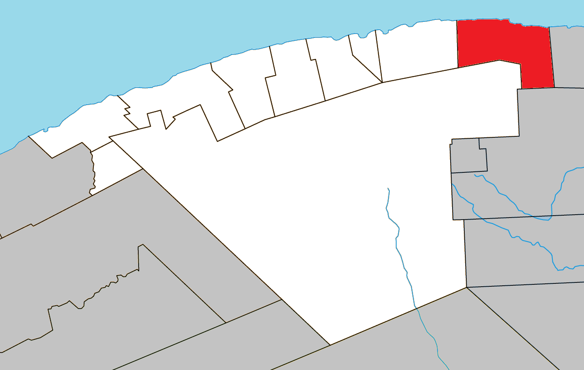 Location of Sainte-Madeleine-de-la-Rivière-Madeleine, Quebec within La Haute-Gaspésie Regional County Municipality.